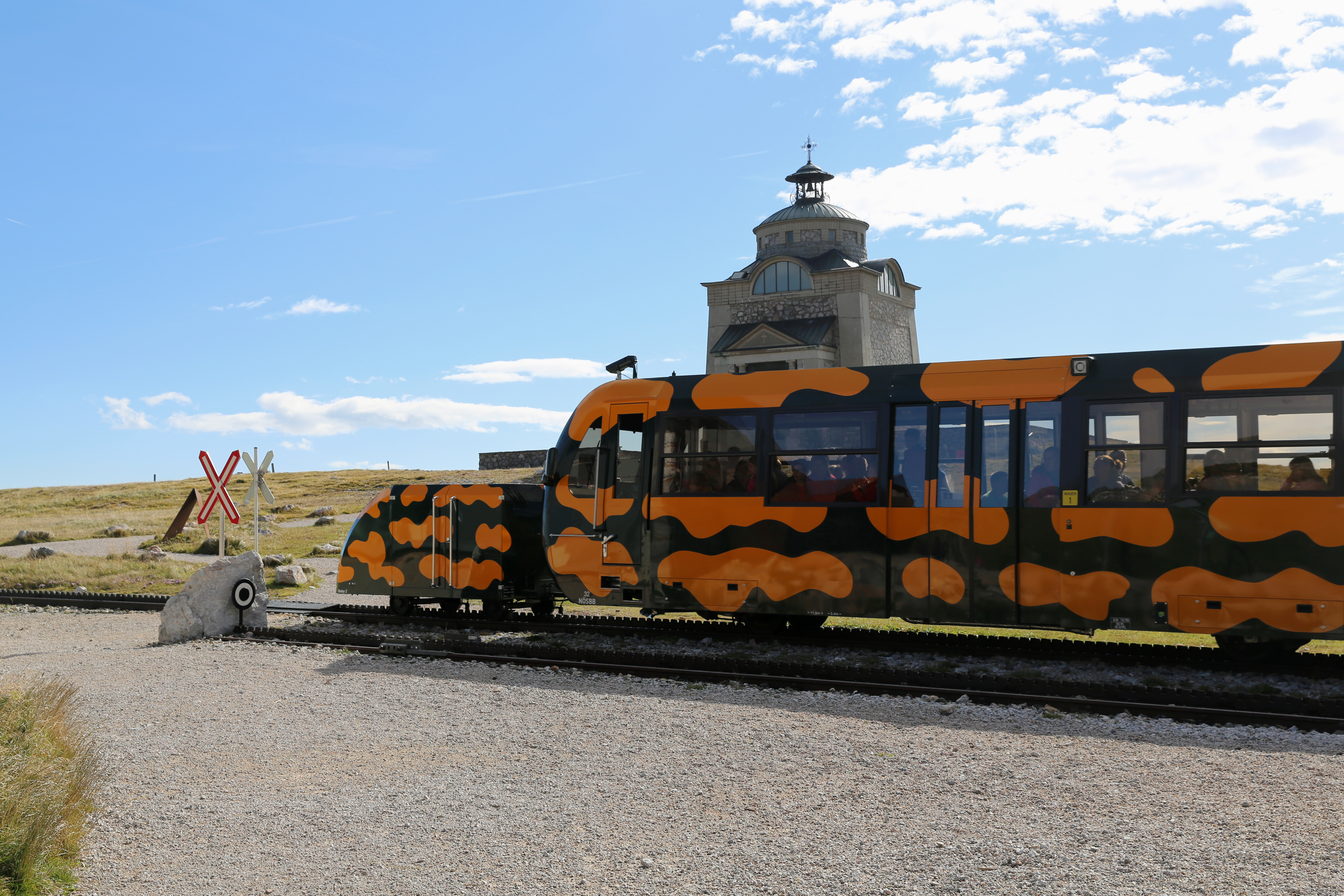 Empress Elisabeth Memorial Church and Schneeberg Railway/Schneeberg Railway (cog railway) on Schneeberg) (Lower Austria, Austria).